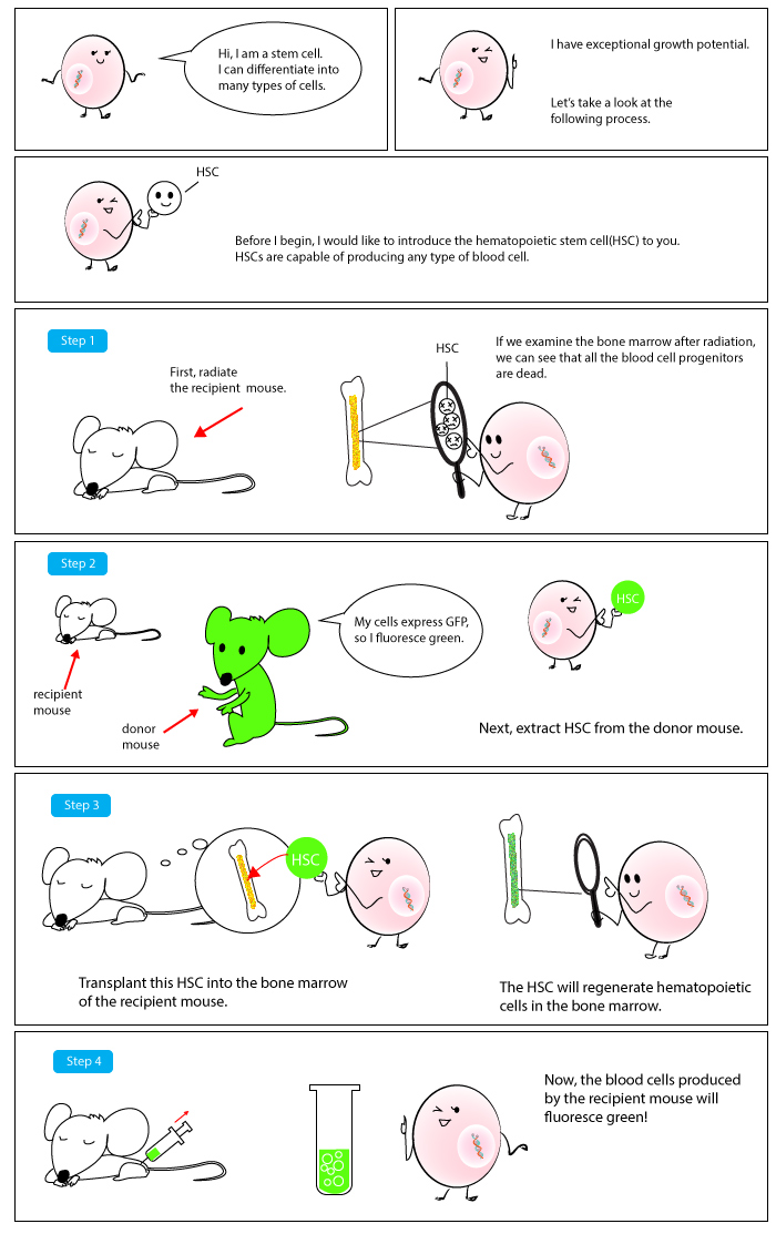 Transplantation of a fluorescent hematopoetic stem cell into a lethally irradiated mouse allows for the repopulation of bone marrow with fluorescent hematopoietic cells.